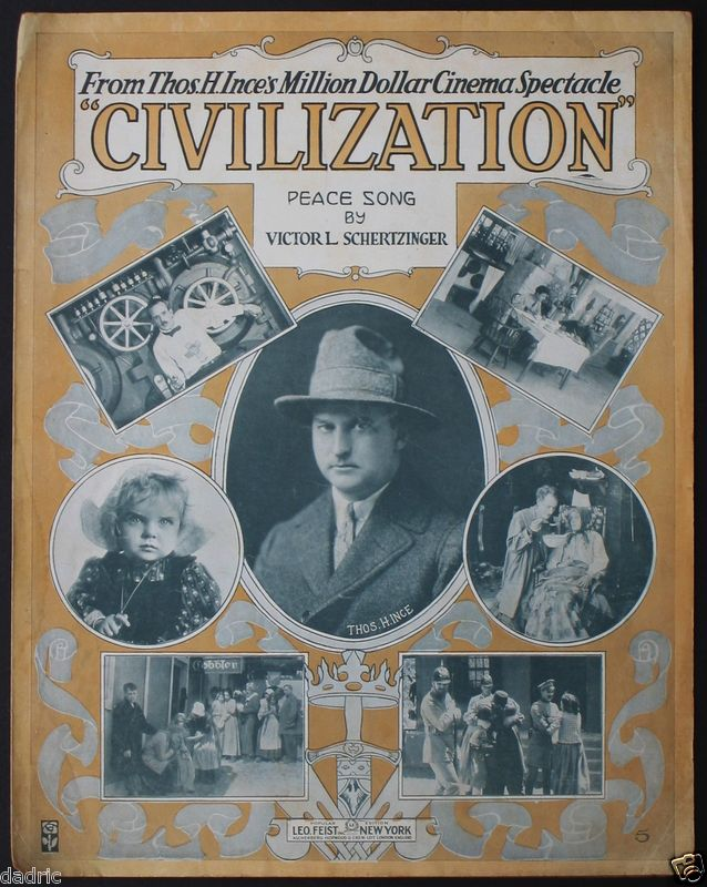 Sheet music cover for the song "Peace Song" by Victor Schertzinger for the American film Civilization (1916) with image of Thomas H. Ince.